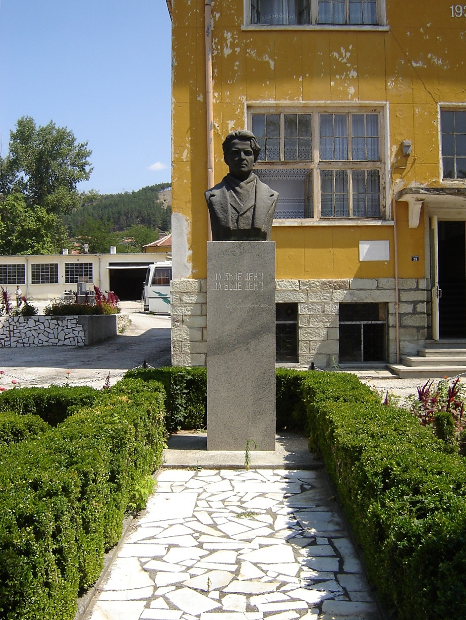 Statue in the schools yard